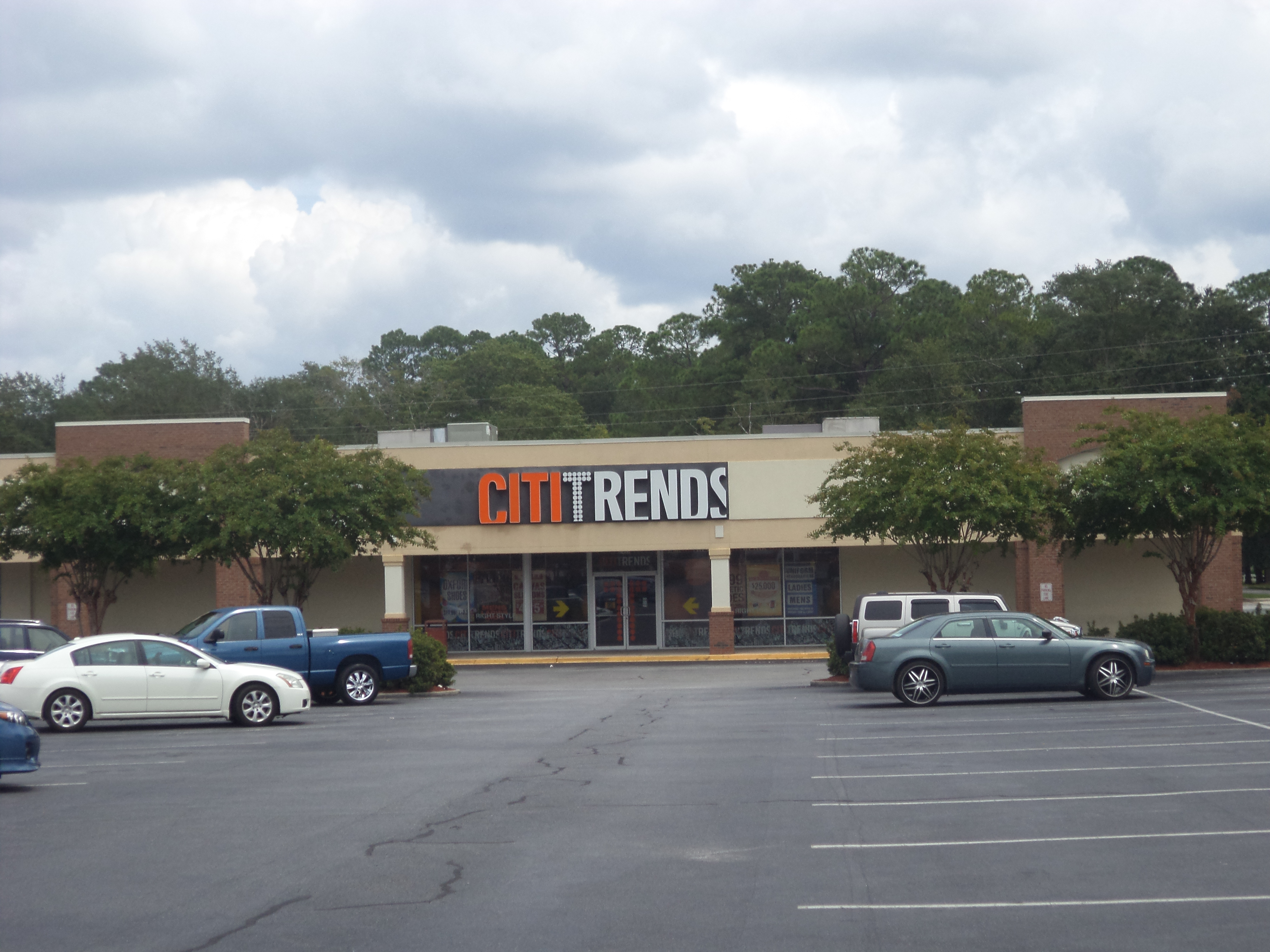 Cititrends, Valdosta, Lowndes County, Georgia